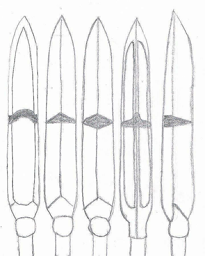 Formen der Yari-Klingen